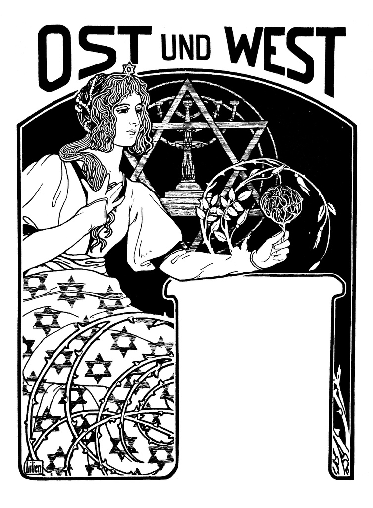 Cover for the Periodical Ost und West